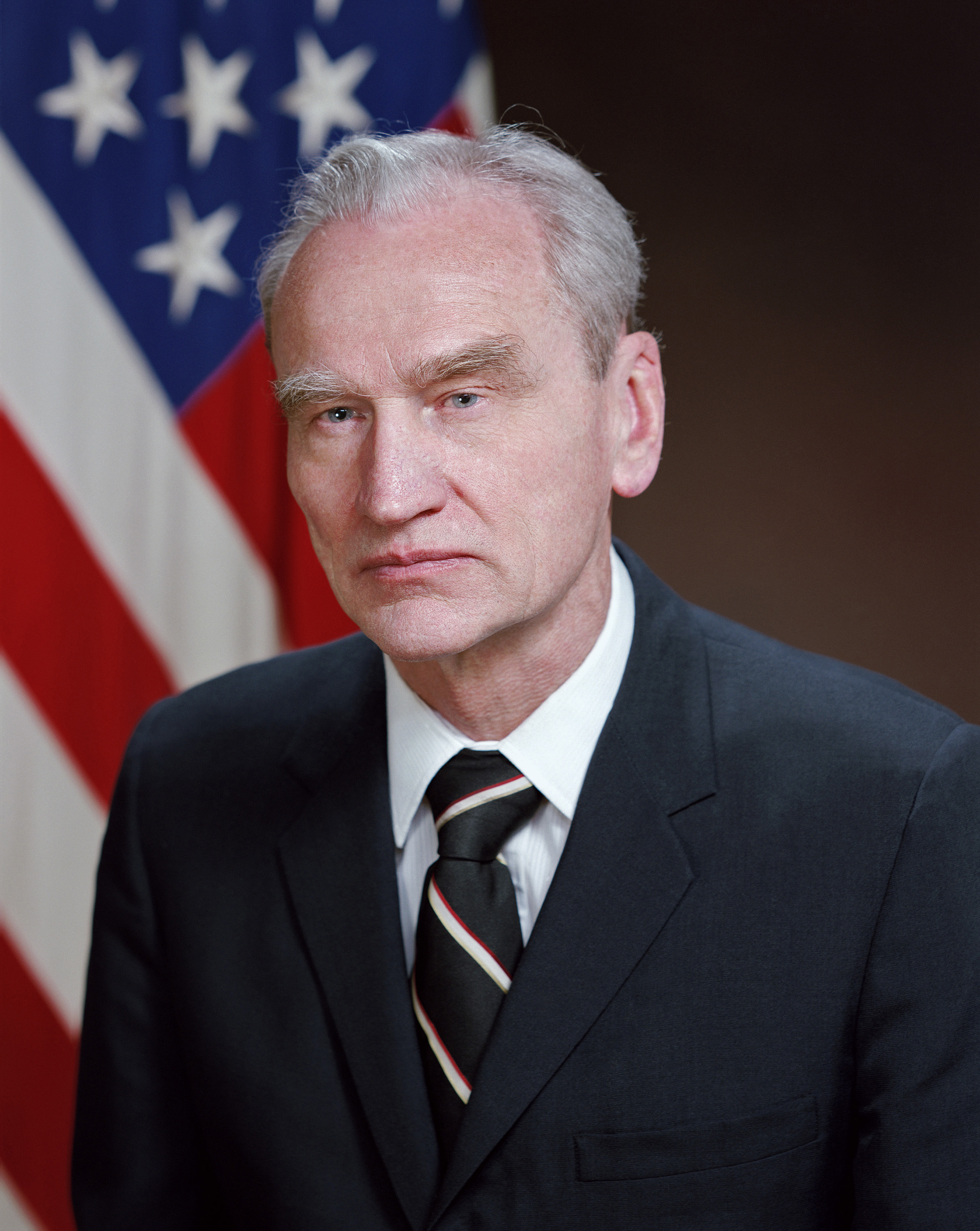 Portrait of DoD Mr. John E. Murray. (U.S. Army photo by Mr. Russell F. Roederer) (Released) (PC-191483-A)